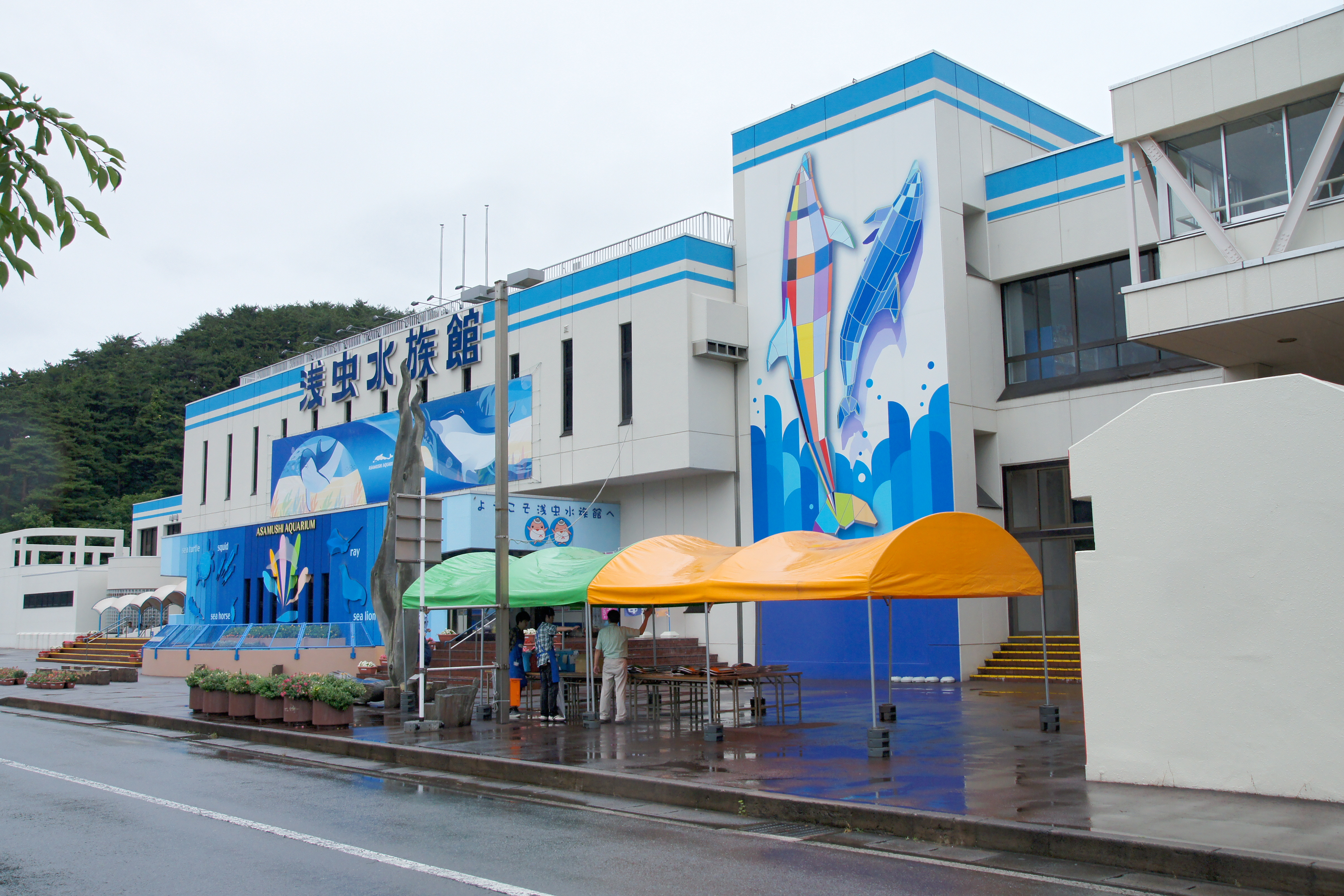 Asamushi Aquarium in Aomori, Aomori prefecture, Japan